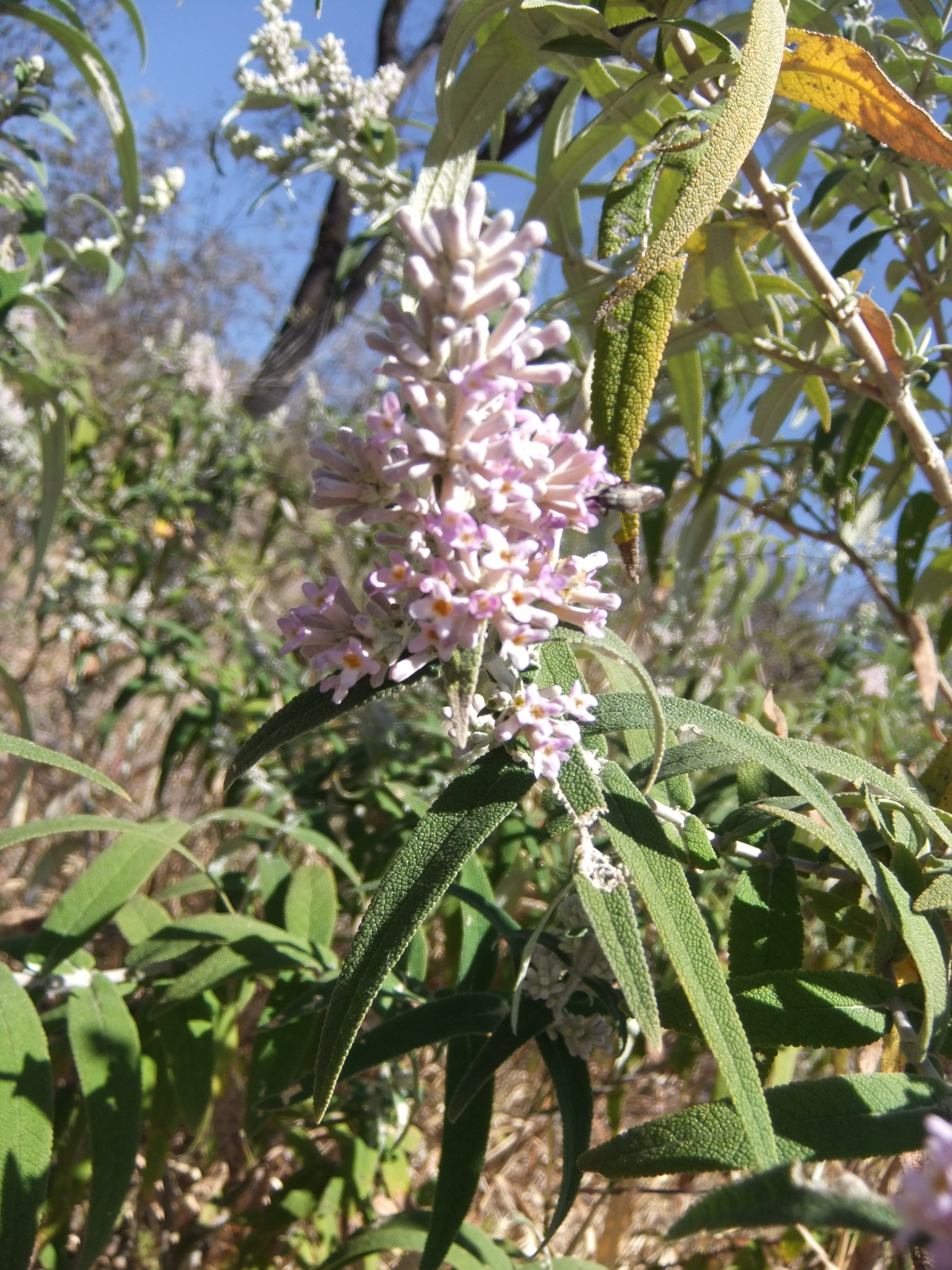 Buddleja salviifolia, Mountain Sanctuary Park, Magaliesberg, South Africa